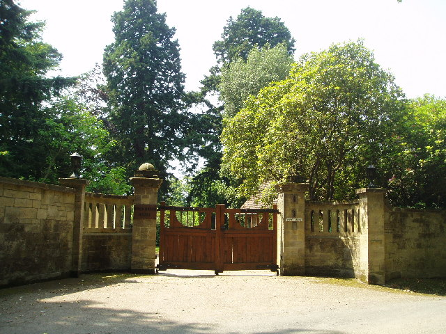 Birch Grove entrance. Birch Grove was the home of Harold and Dorothy Macmillan. He was British Prime Minister from 1957 to 1963. It was here that in 1963, President Kennedy paid a flying private visit during a European tour. Harold Macmillan died at this home in 1986 at the grand age of 92.